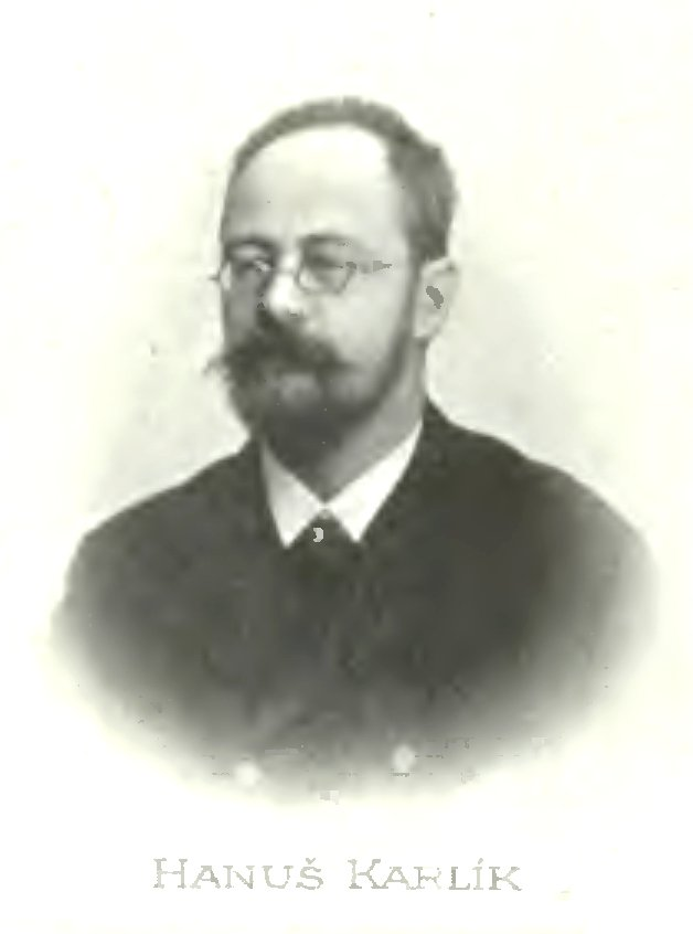 Portrait of Hanuš Karlík (1850-1927), Czech entrepreneur, working in sugar processing industry.